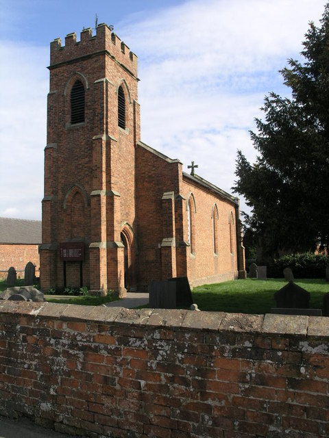 Holy Trinity parish church, Yeaveley, Derbyshire, seen from the west